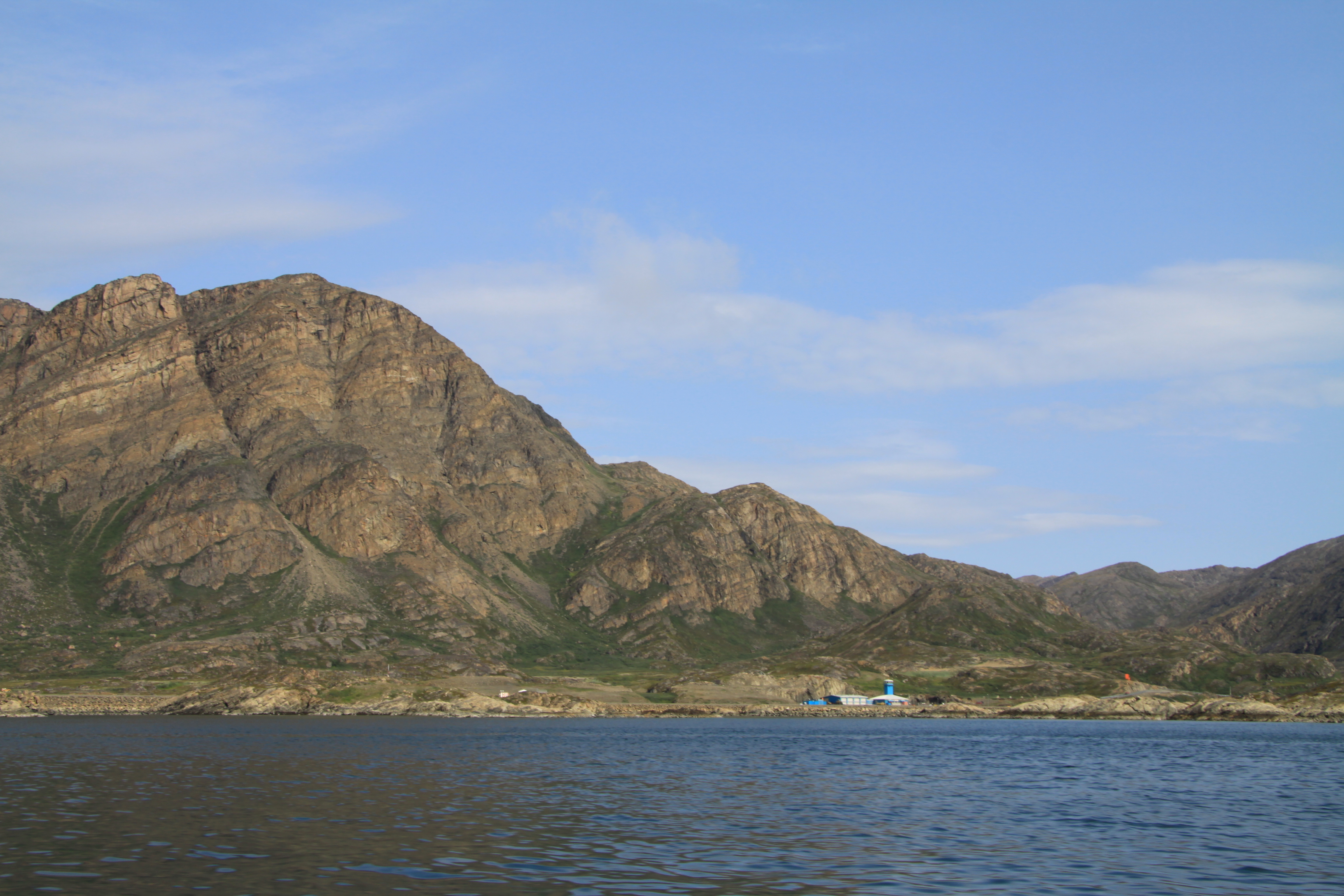 Kangerluarsunnguaq Bay near Sisimiut, Greenland. Airport tower. - Google Maps - Google Earth